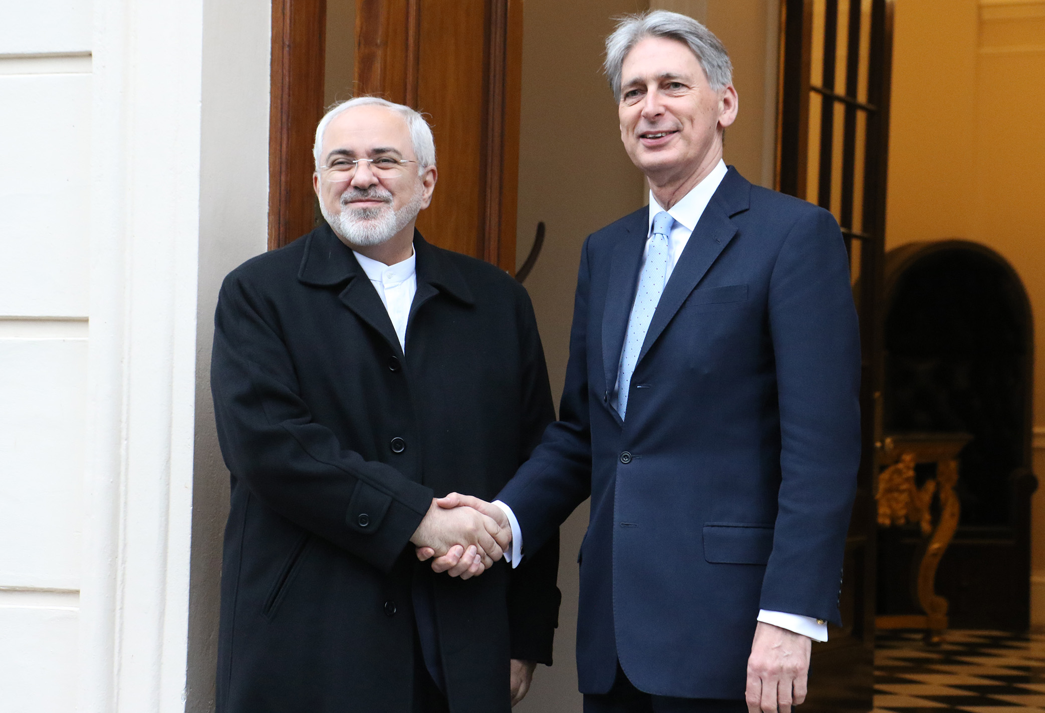 Foreign Secretary Philip Hammond meeting Iranian Foreign Minister Mohammed Javad Zarif in London, 5 February 2016.